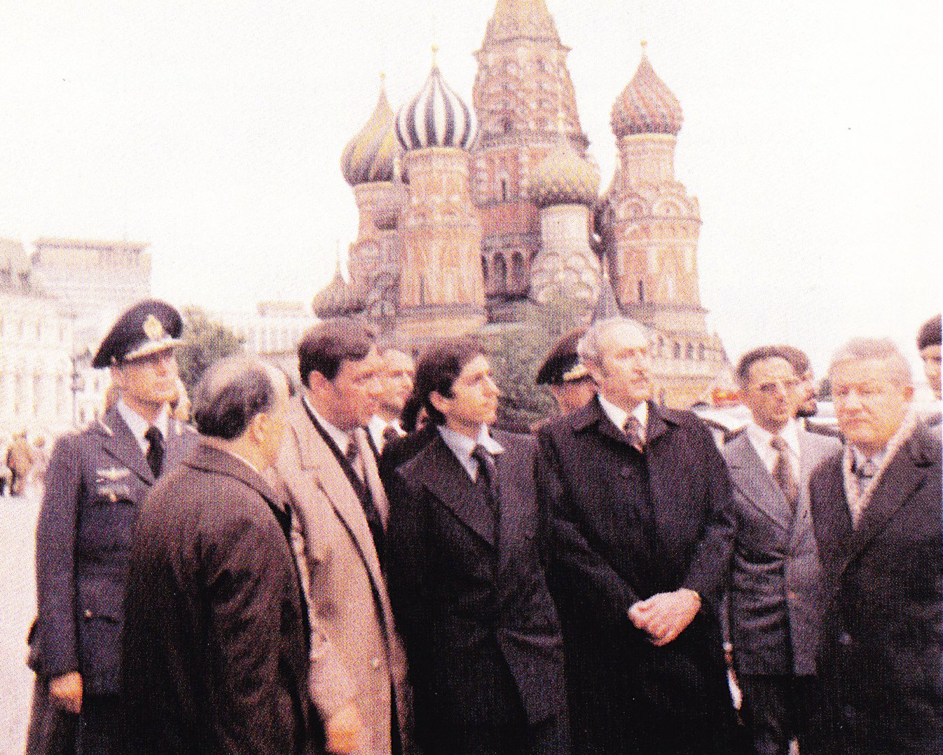 Cyrus Reza Pahlavi, state visit, Moskau, 1976